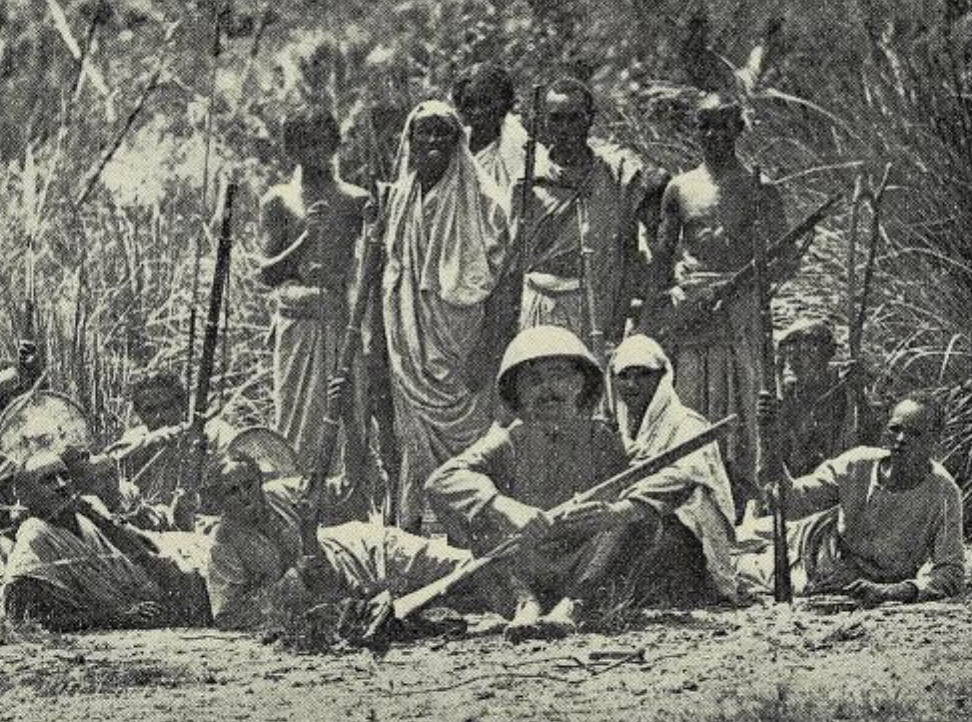 Harald George Carlos Swayne with his escort, taken at the noon bivouac, Ambal River, Habr Toljaala country, March 1891.